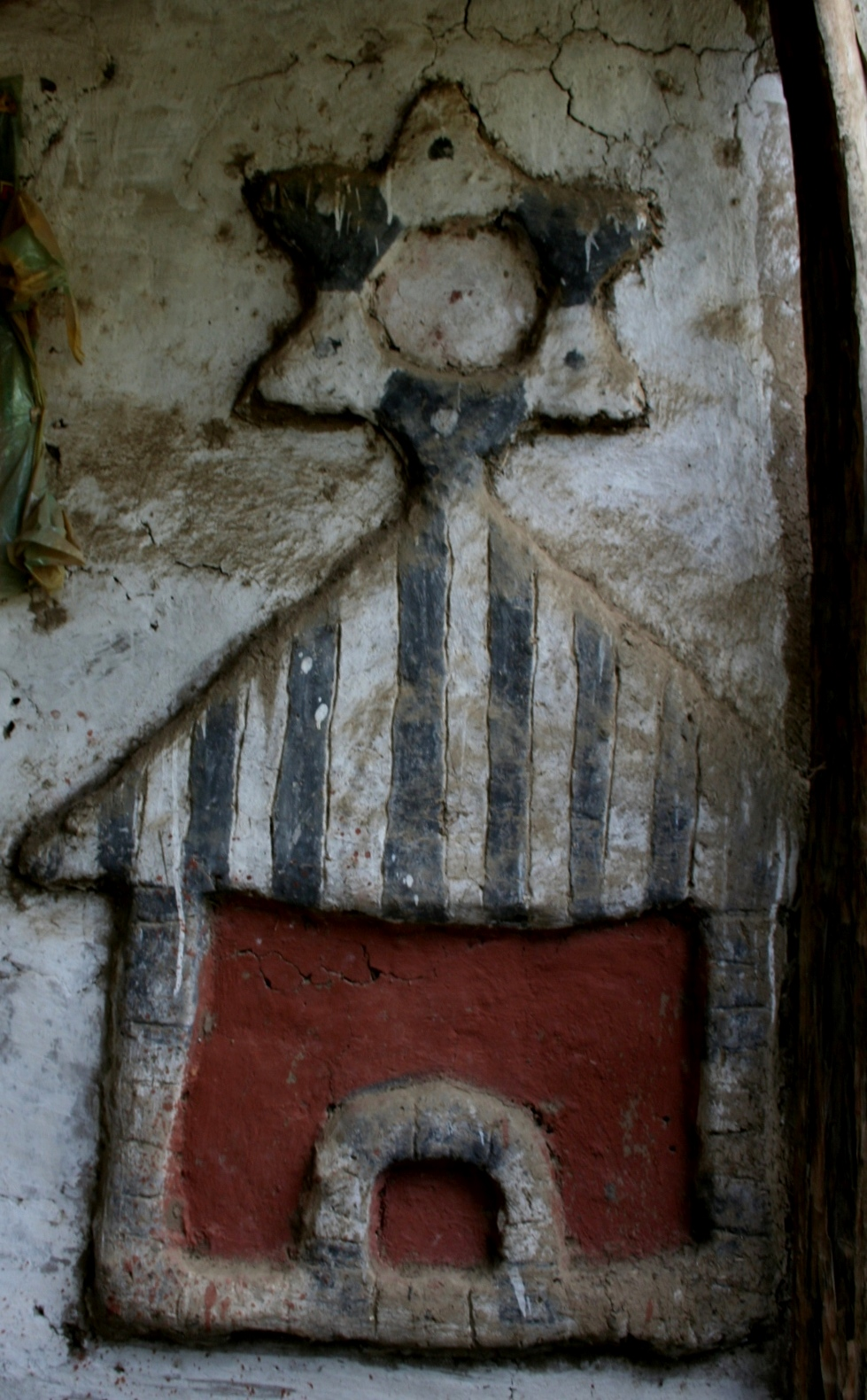 Pottery in the Falasha village in Gonder,Ethiopia